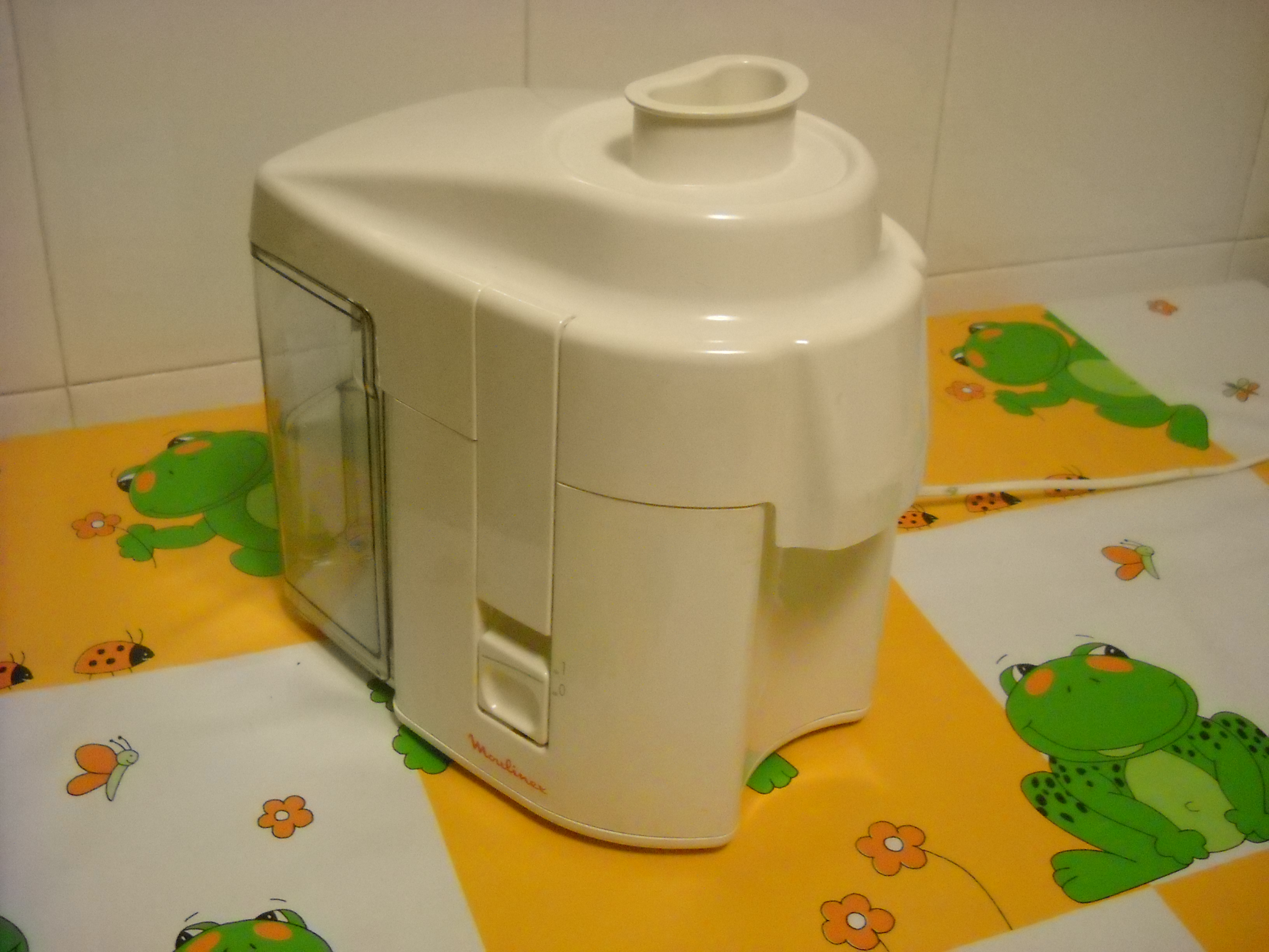 Centrifugal juice extractor by Moulinex